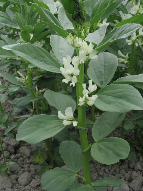 Flowering Faba bean (Vicia faba), cultivar Columbo. Faba beans with white flowers have low content of tannins